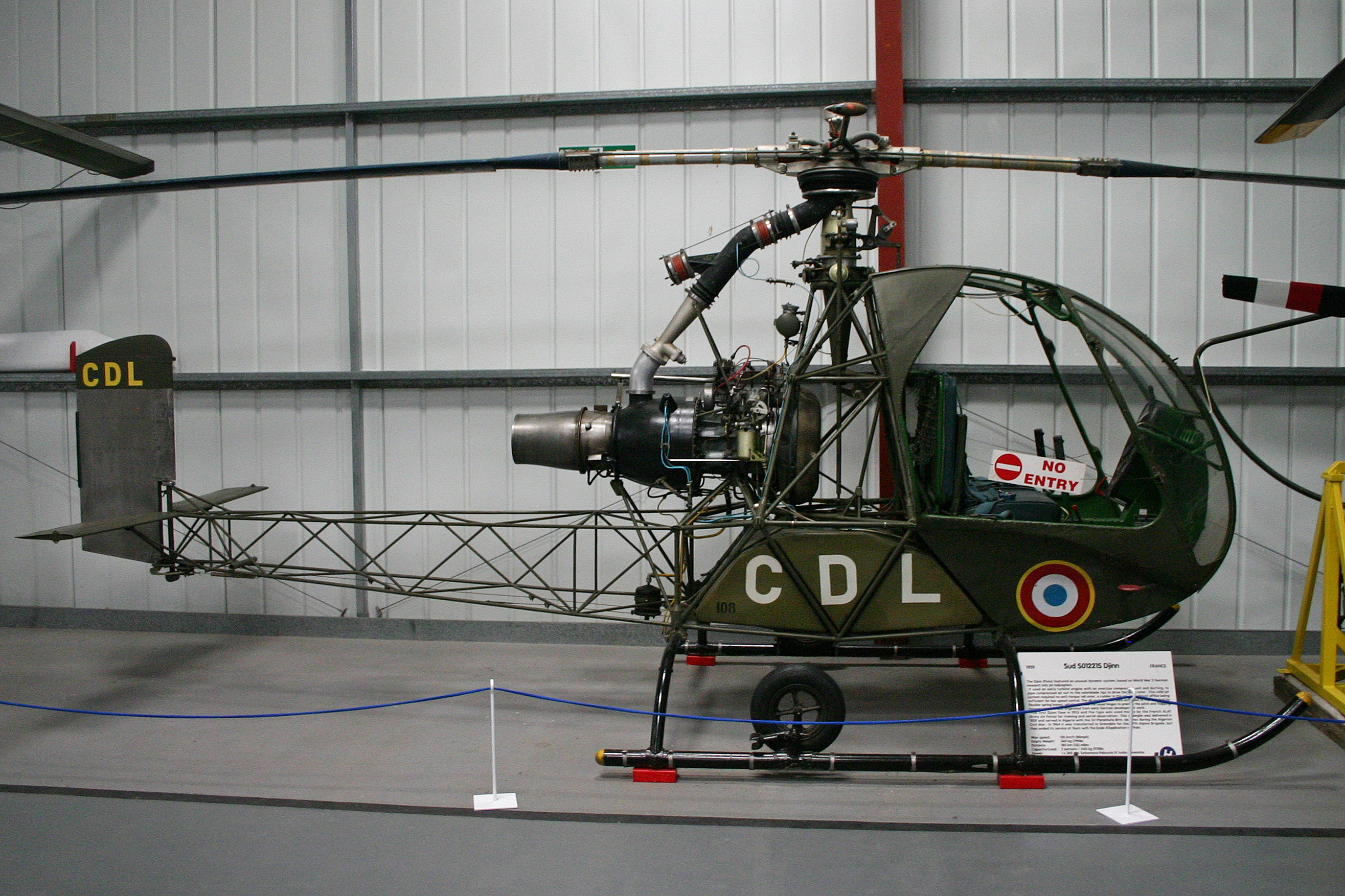 Allocated civil registration F-MCDL. msn 1058. International Helicopter Museum. Weston-Super-Mare. 15-6-2011